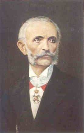 Portrait of Konstantinos Zappas. Greek benefactor from Labovo. (1814-1892)